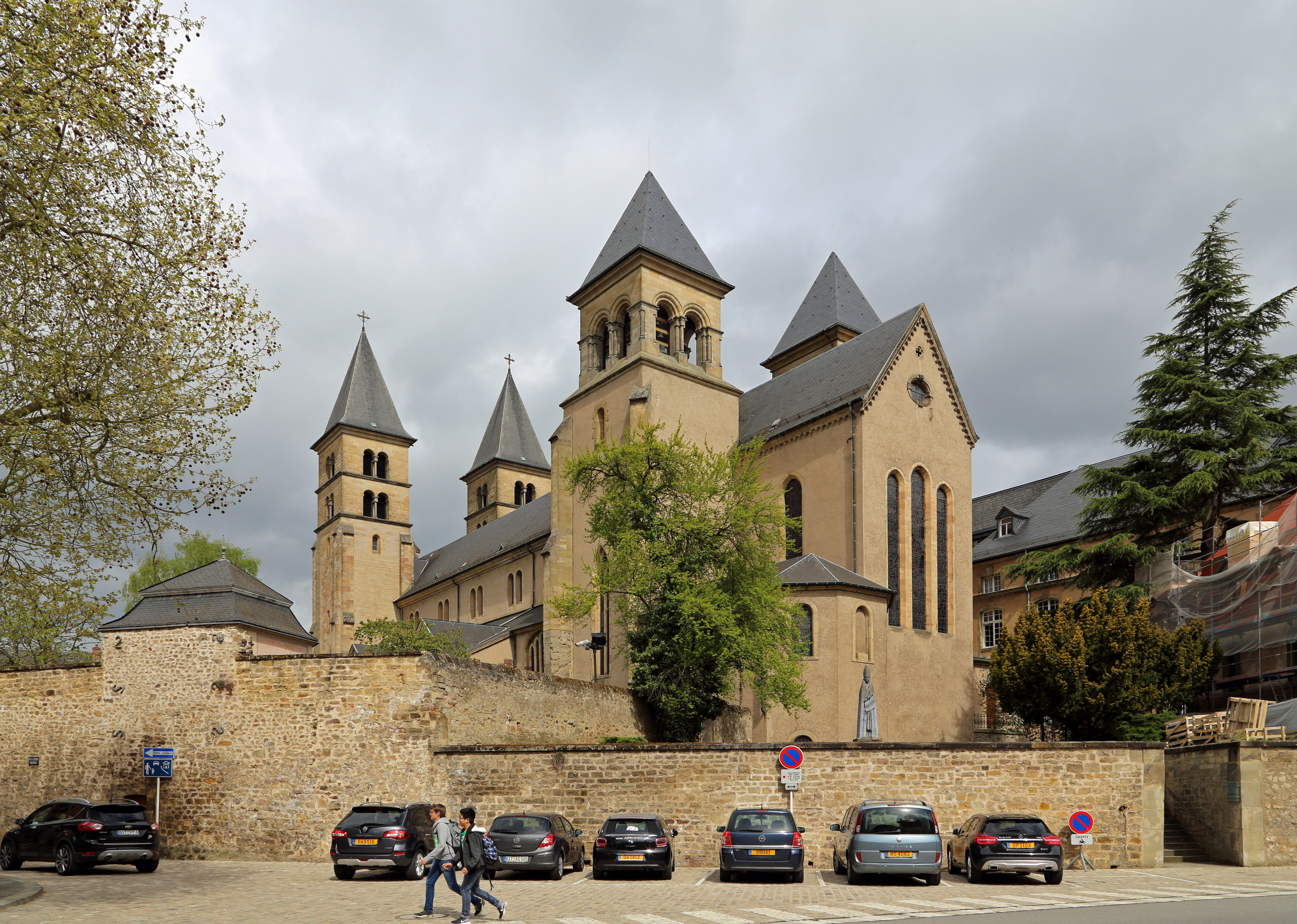 Echternach (Grand Duchy of Luxembourg): St Willibrord basilica, seen from the south